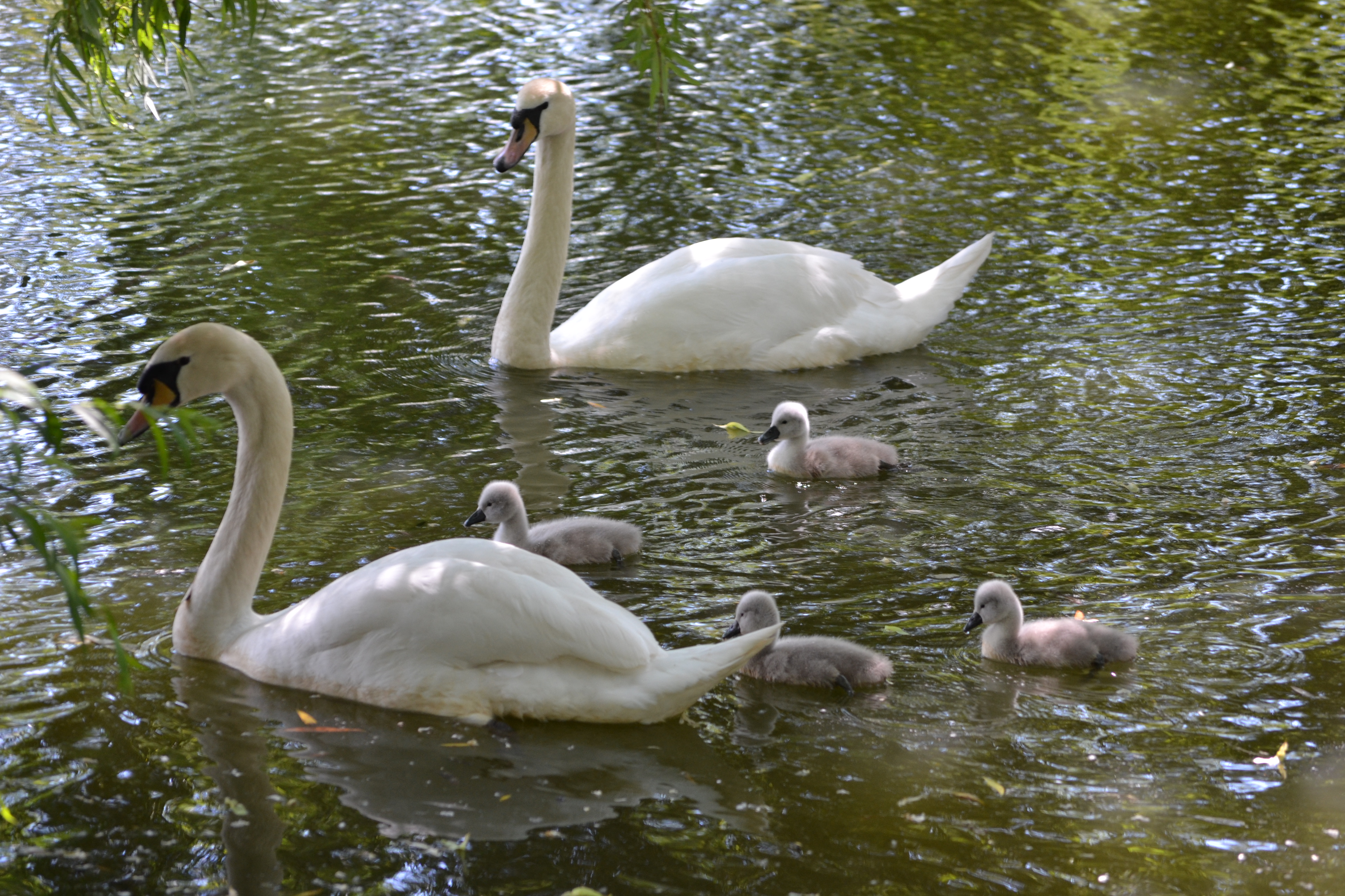 Cygnus olor (families) - City Park in Lučenec